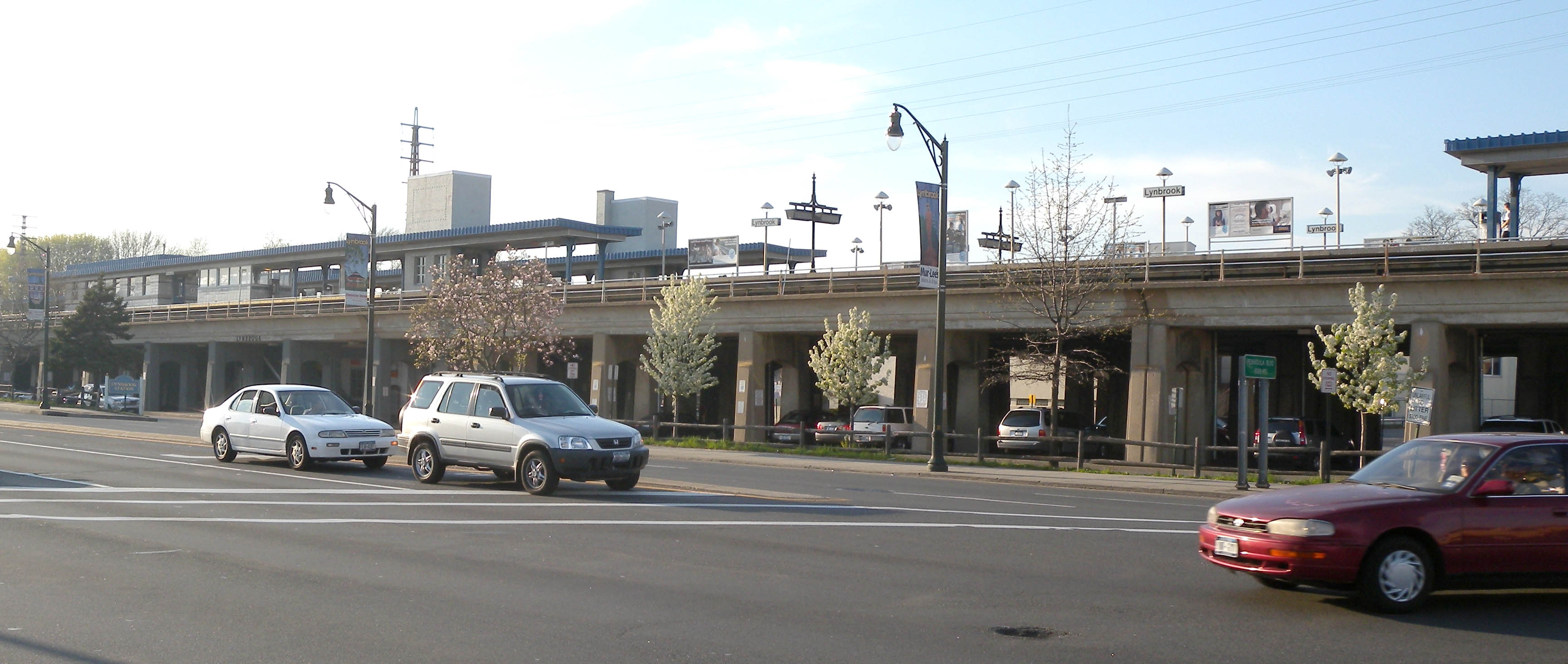 Looking northwest across Sunrise Highway and Broadway, at Lynbrook Station late on a sunny afternoon.